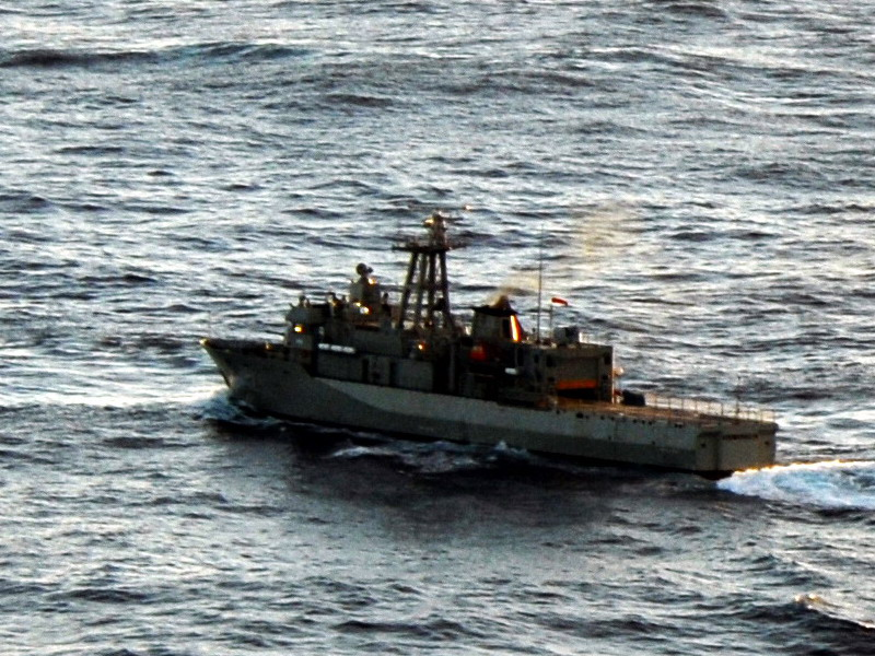 Mexican navy patrol vessel ARM Baja California during the Atlantic phase of UNITAS 52 (cropped image from 110504-N-ZI300-357.jpg